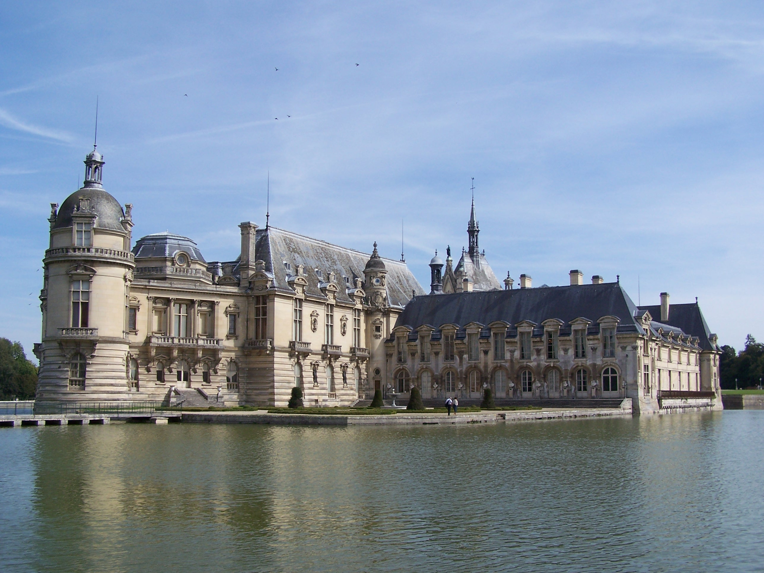 General view of the Château de Chantilly